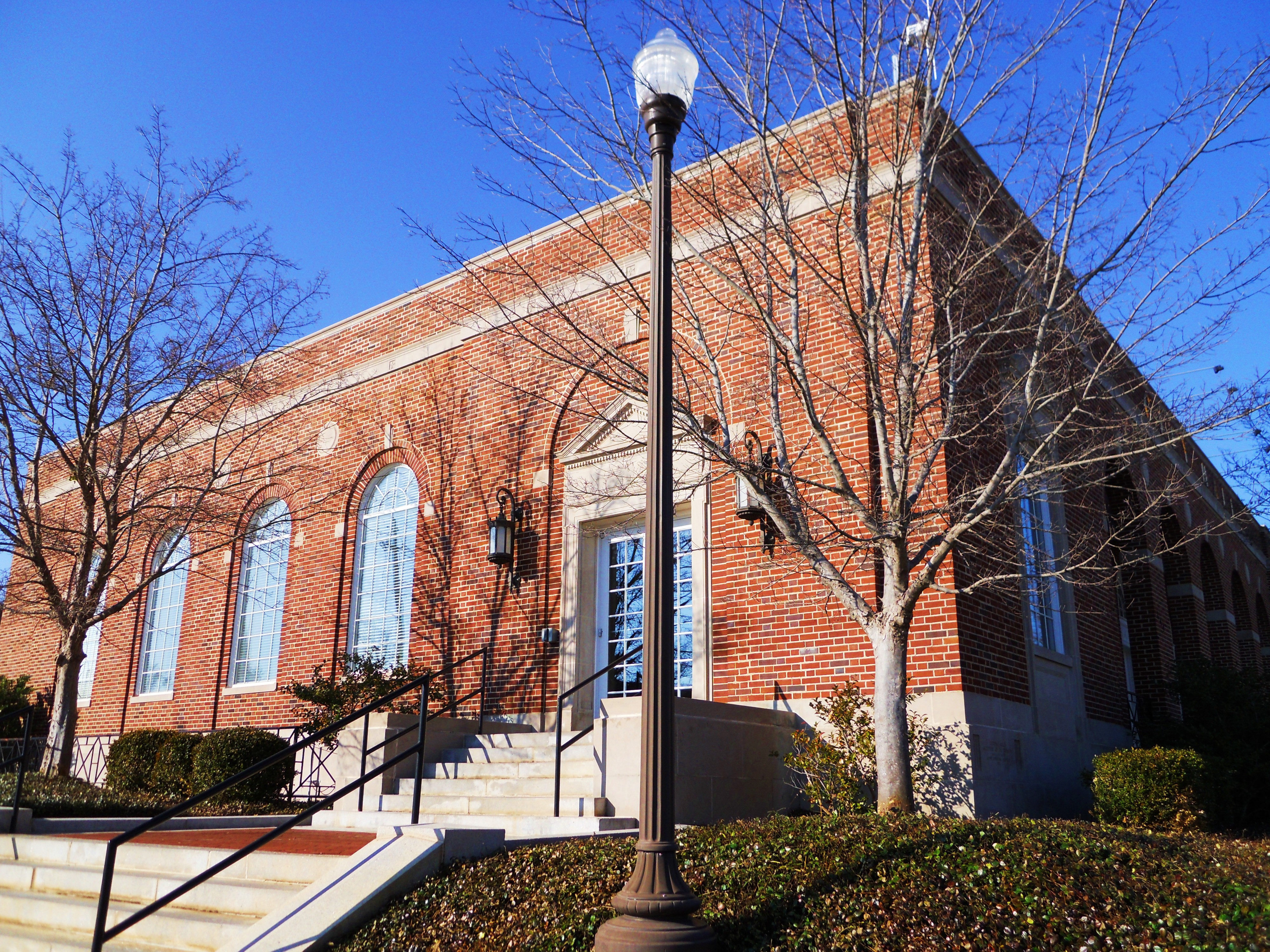 This is a picture of Auburn City Hall in Auburn, Alabama, built in 1933, is the city hall of Auburn, Alabama.